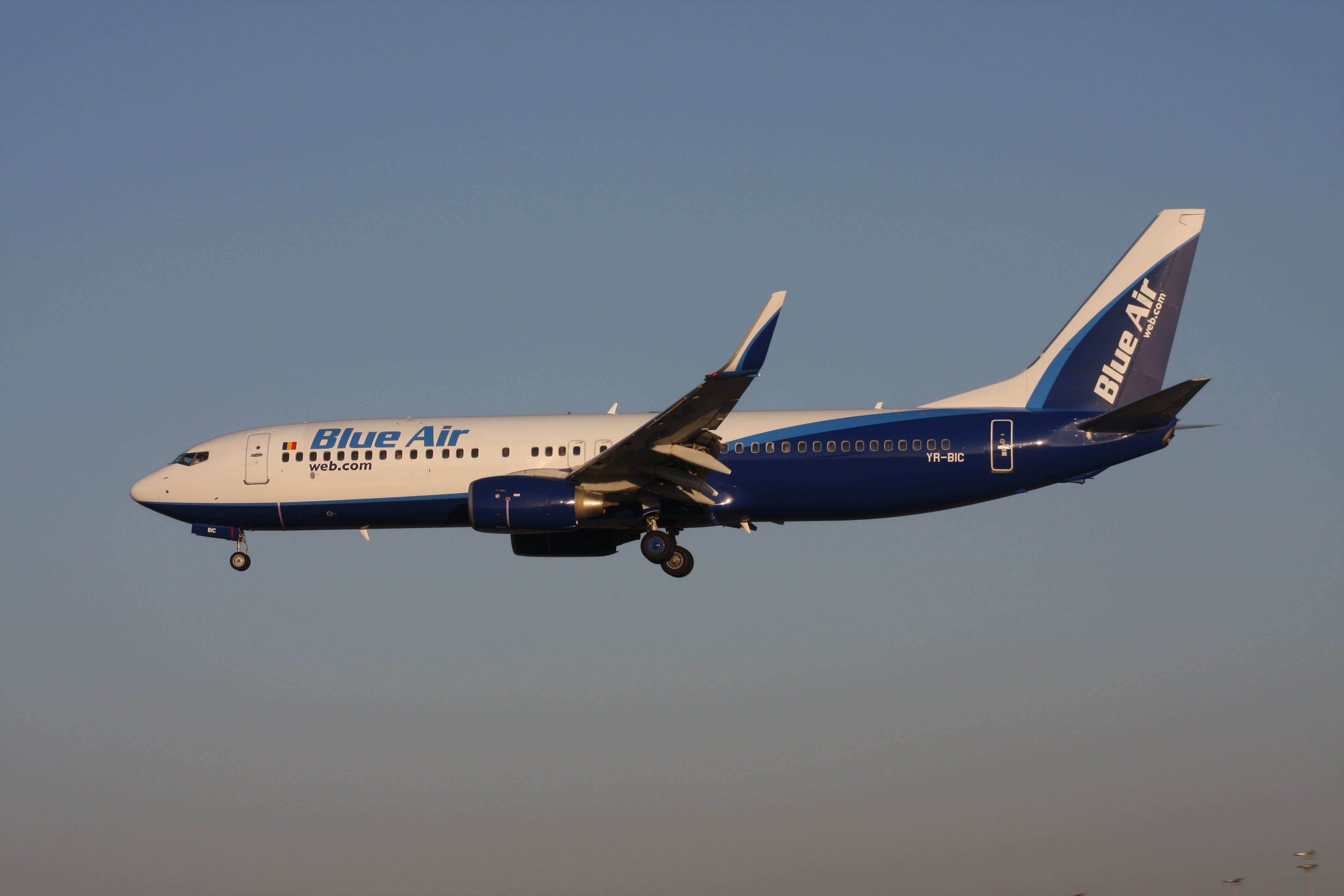 A Blue Air Boeing 737-800 landing at Lisbon Airport, Portugal.